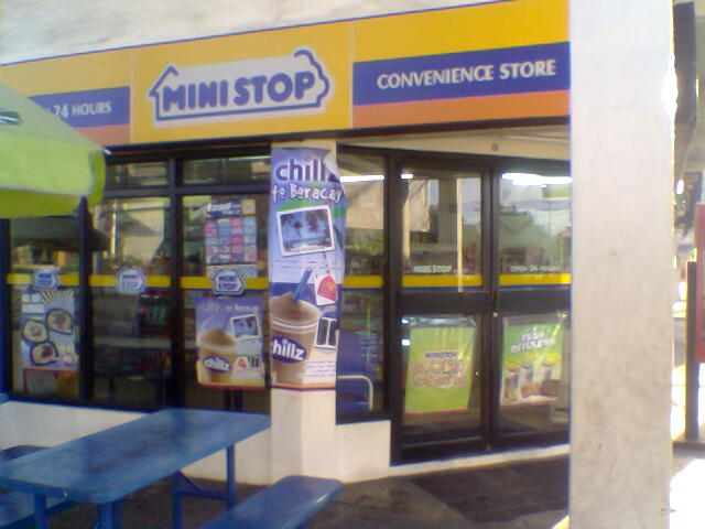 Ministop branch in Angeles City, Philippines. Taken by mobile phone.